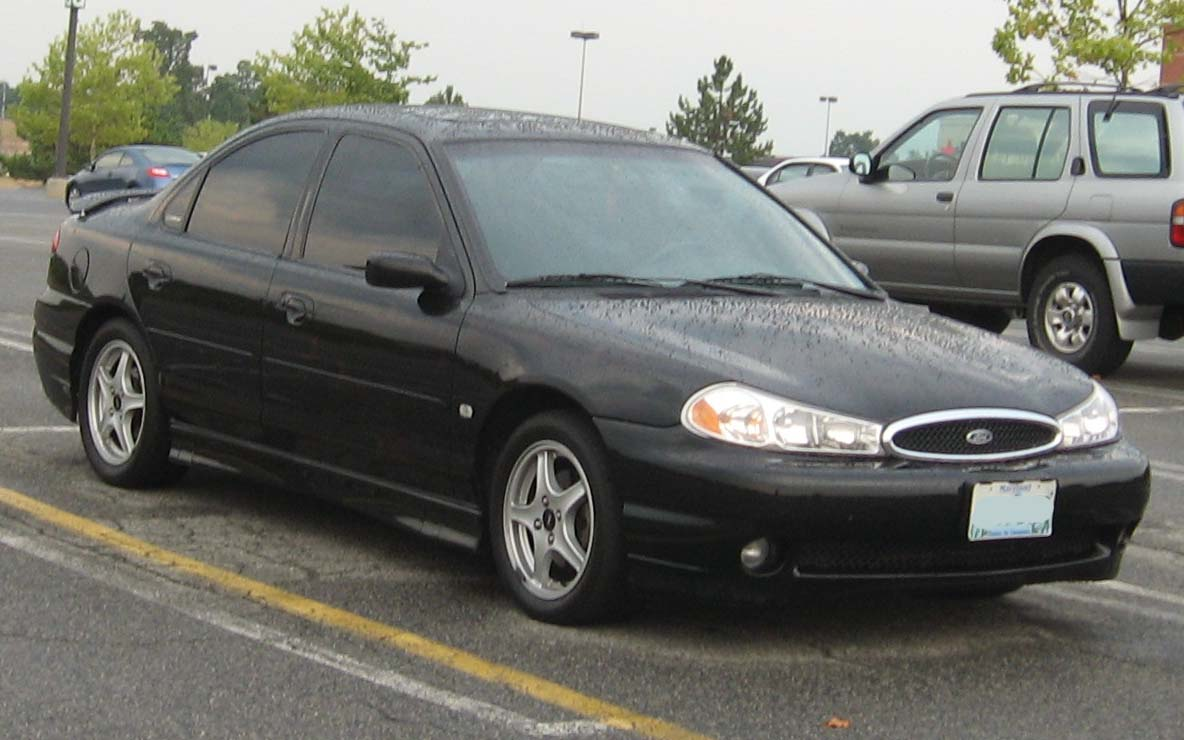 1998-2000 Ford SVT Contour photographed in USA.